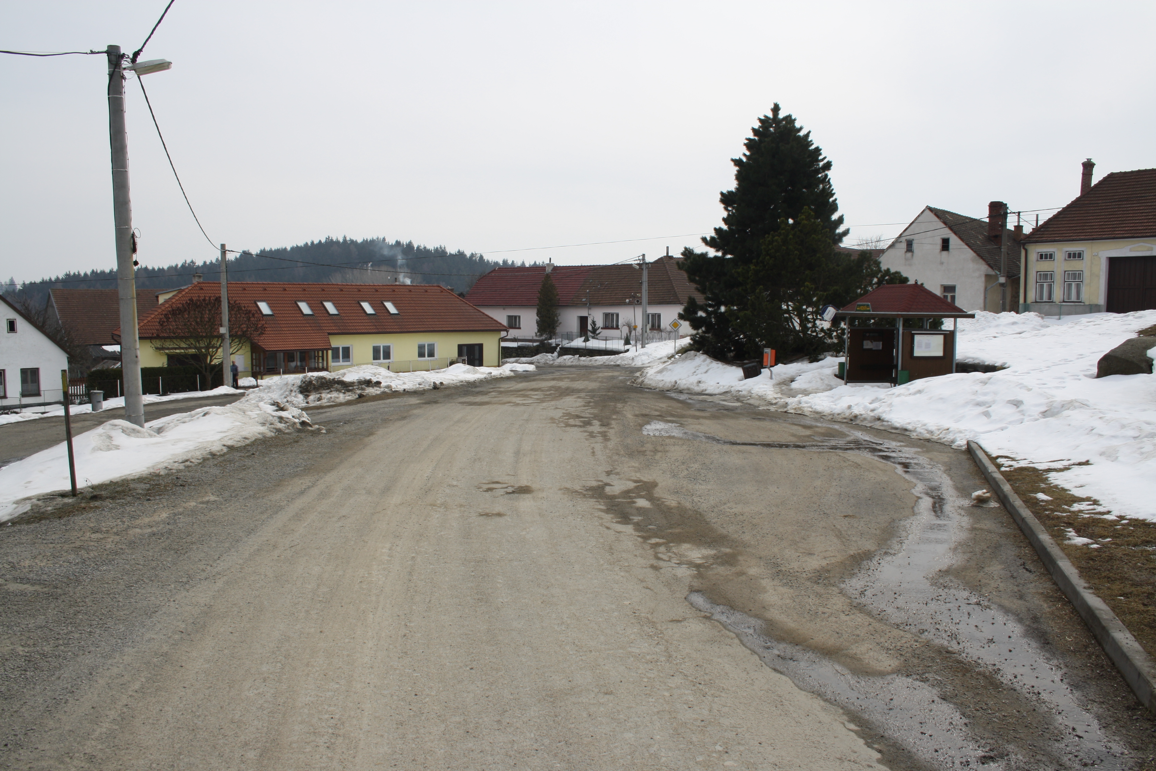 Center of Hroznatín, Třebíč District.